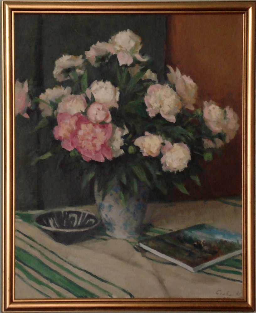 Kálmán Csabai: Still life (oil painting)